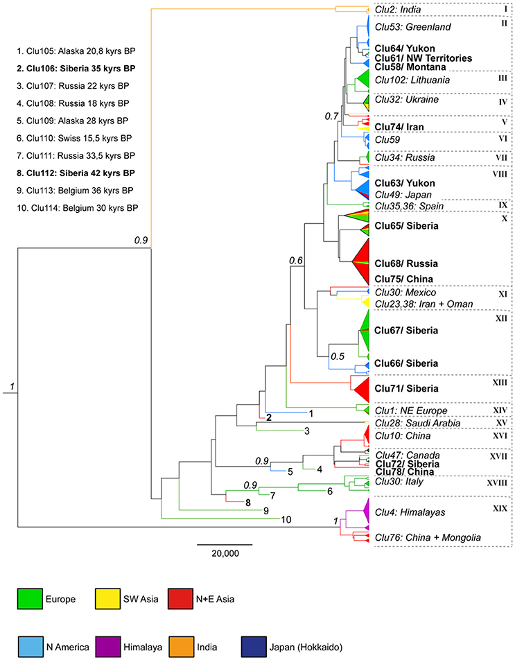 Phylogenetic tree for wolves (Canis lupus) based on the mitochondrial DNA for wolves from Ersmark 2016. Clades are denoted I–XIX. Key regions/haplotypes are indicated and new haplotypes are displayed in bold. Late Pleistocene samples are represented by the numbers 1–10.